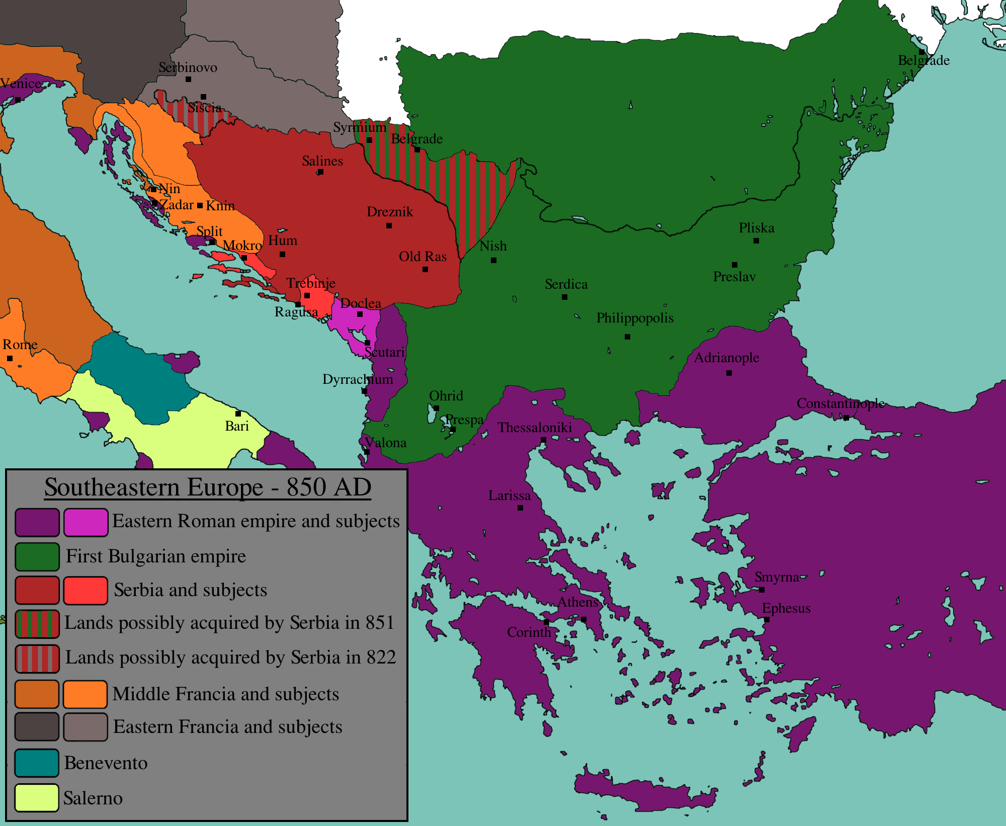 References: 1. H.E.Stier (dir.), « Grosser Atlas zur Weltgeschichte », Westermann 1985 2. М. Благојевић et al. (2005) "Историјски атлас", Завод за уџбенике, Београд 3. Др. Борислав Влајић (1999) "Срби староседеоци Балкана и Паноније", "Стручна Књига", Београд 4. Константин Порфирогенит, „De administrando Imperio“ (О управљању Царством) (глава 32) 5. Поп Дукљанин (1988) "Љетопис попа Дукљанина" Београд 6. Реља Новаковић (1981) „Где се налазила Србија од VII до XII века”, Београд. стр. 23. 7. Александар Ј. Вукосављвић, ,,Нека запажања о глави 30. de administrando imperio - анализа извора и осврт на један део историјографије" 8. Др Ђорђе Јанковић, Средњовековна култура Срба на граници према Западној Европи 9. Prospetto cronologico della storia della Dalmazia: con riguardo alle provincie slave contermini, p. 86 10. Л. Ковачевић & Л. Јовановић, Историја српскога народа, Београд, 1894, Књига 2. стр. 38—39 11. Fine, John V. A. (1991) [1983]. The Early Medieval Balkans: A Critical Survey from the Sixth to the Late Twelfth Century. Ann Arbor, Michigan: University of Michigan Press. 12. Група аутора (1973) "Општа енциклопедија "Larousse" " Вук Караџић, Београд